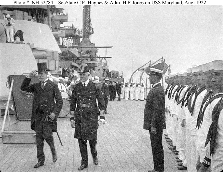 Secretary of State Charles Evans Hughes (at left) and Admiral Hilary P. Jones, USN, Commander in Chief, U.S. Atlantic Fleet On board USS Maryland (BB-46) in August 1922, during her cruise to Rio de Janeiro to participate in the Brazilian Centennial Exposition.